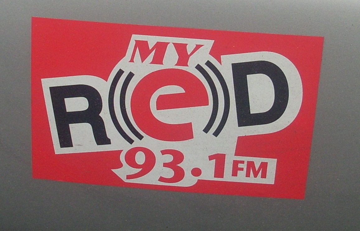 93.1 Red FM bumper sticker photographed in New Westminster, British Columbia, Canada.